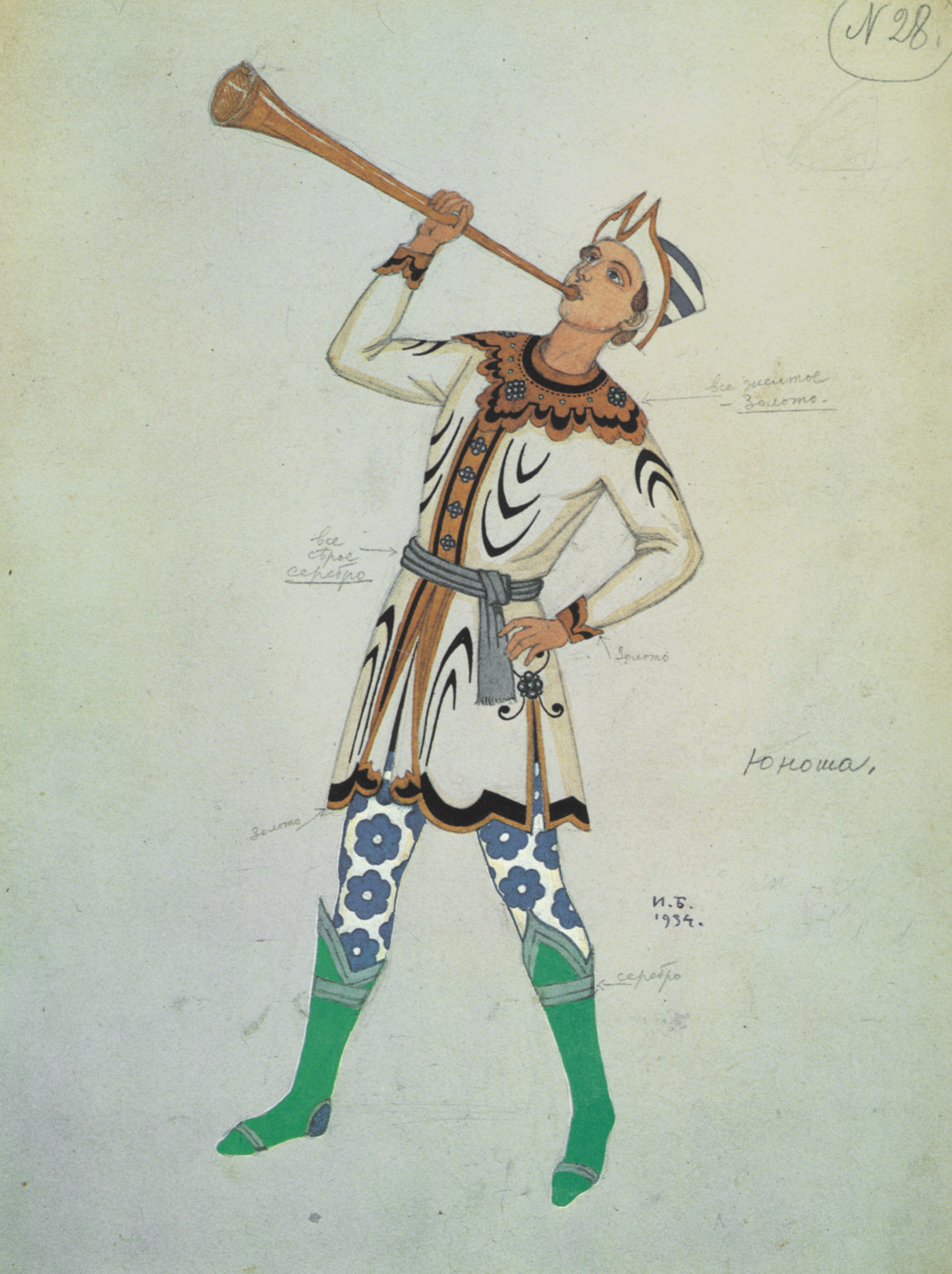 A YOUTH. Costume design for the opera "The Tale of the Invisible City of Kitezh and the Maiden Fevronia" by Rimsky-Kosrakov. 1934